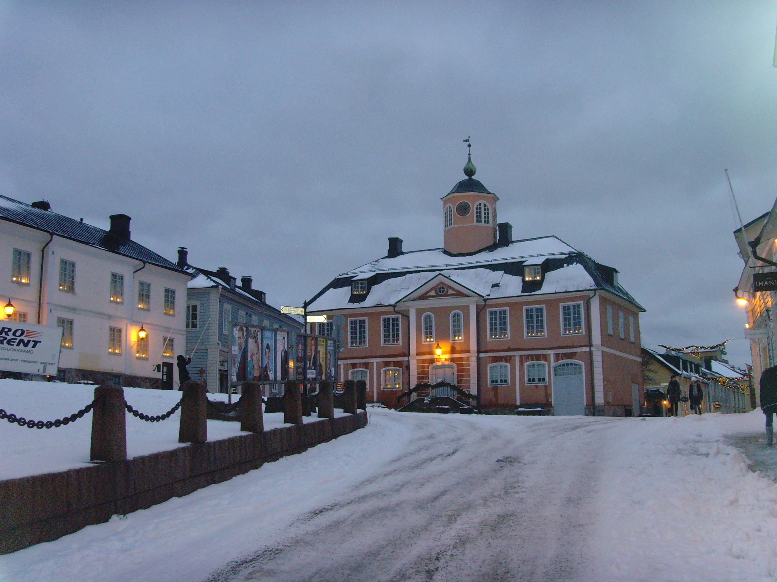 Porvoo Town Hall